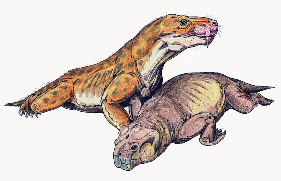 Euchambersia 248MYA.